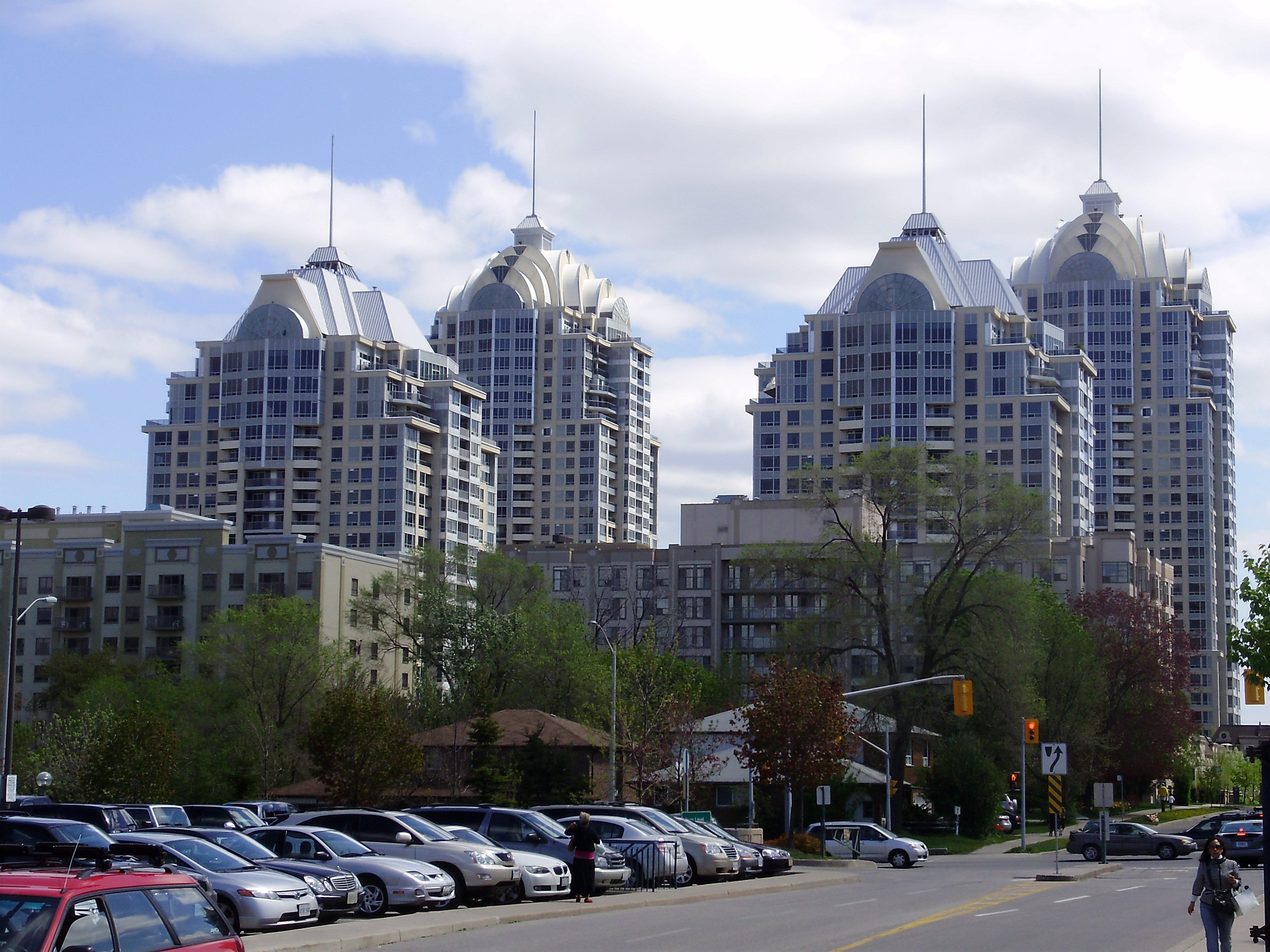 Condominium towers rise above single-family homes south of Sheppard Avenue East in the Bayview Village neighbourhood of North York, Ontario, Canada.